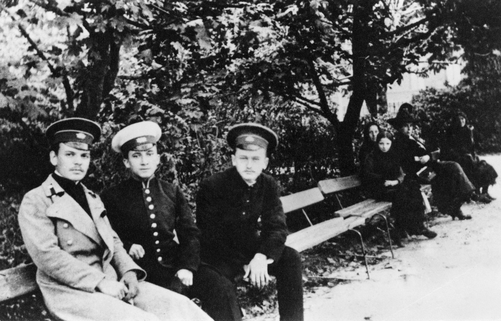 Russian writer Konstantin Paustovsky